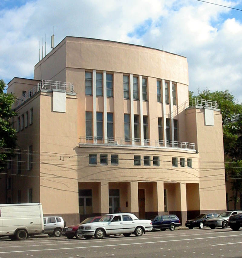 19, Leninsky Prospect, Moscow. Medical Institute, 1928-1934 - the last work by architect Alexander Meisner (1859-1935)